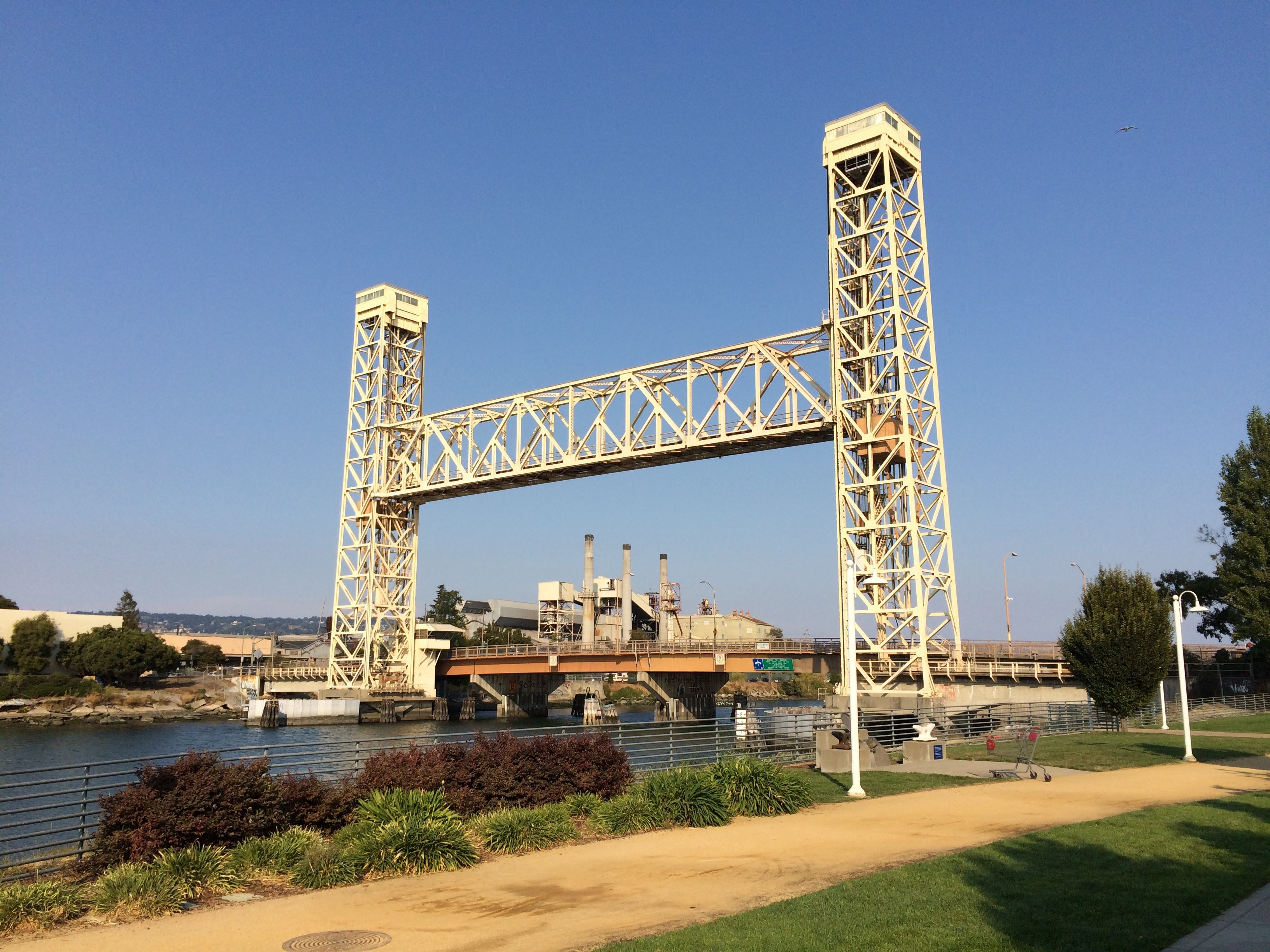 Fruitvale Avenue vertical-lift railroad bridge across the Oakland Estuary, connecting the towns of Oakland & Alameda, CA, USA